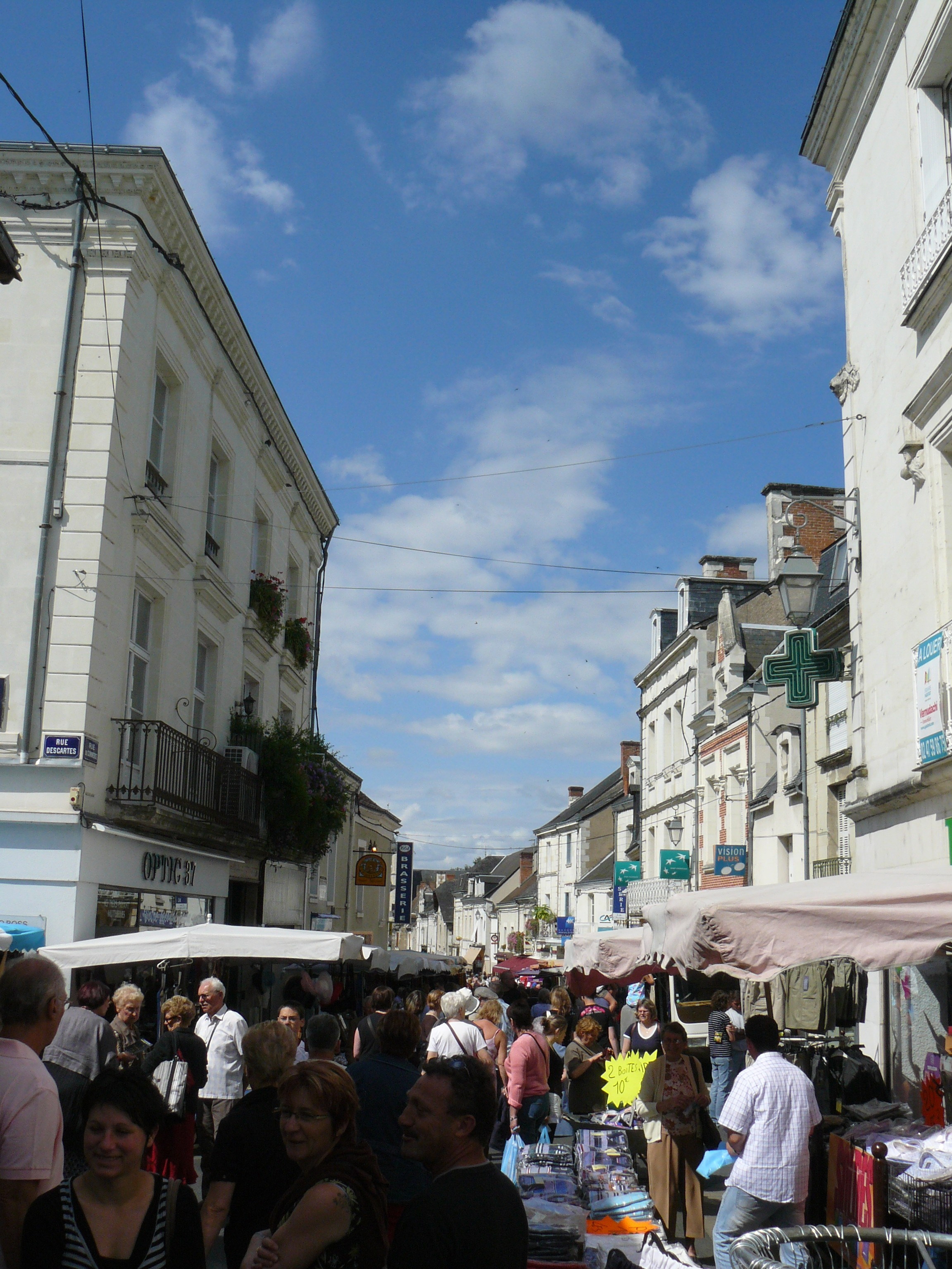 LA HAYE-DESCARTES "market day"